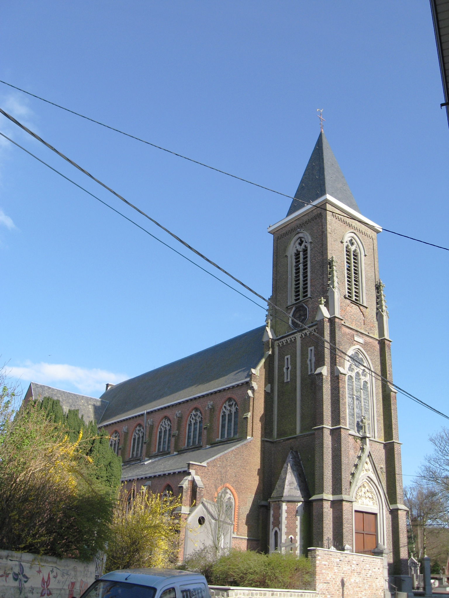 Church of Saints Peter and Paul in Othée, Awans, Liège, Belgium